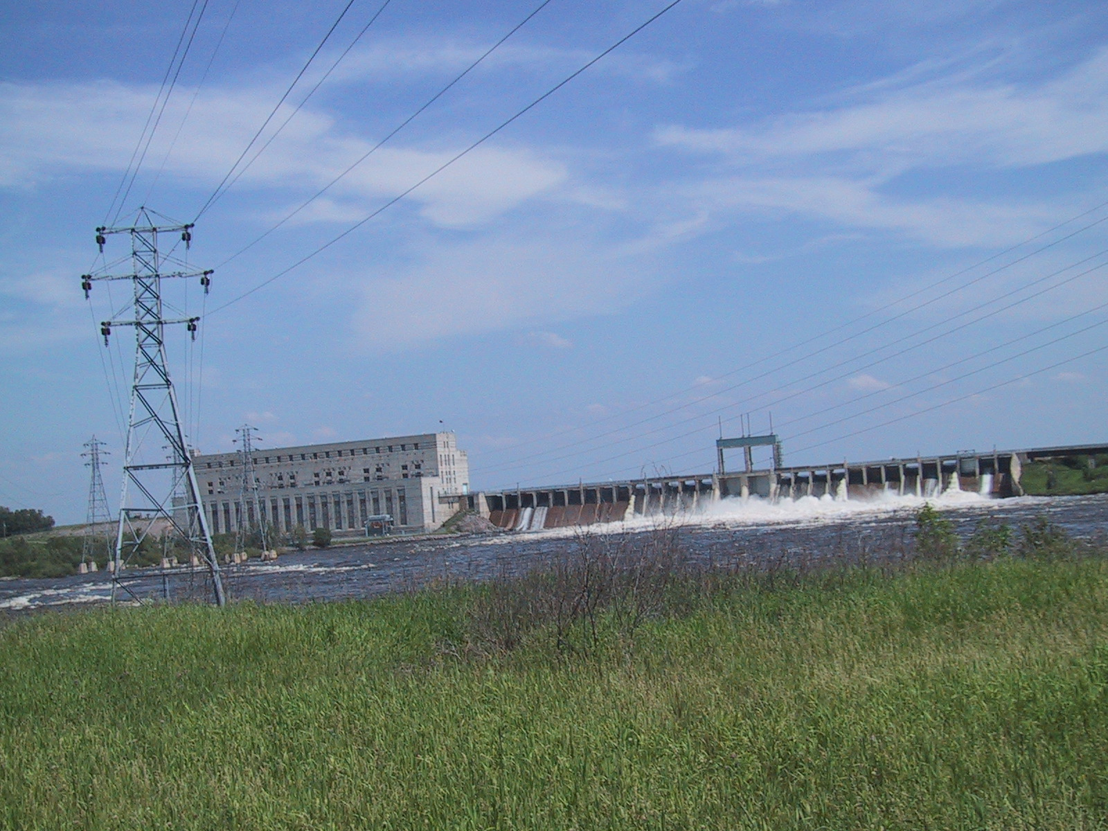 Manitoba Hydro Seven Sisters Generating Station, from the downstream side. Completed in 1952, this station produces 165 megawatts. It is located on the Winnipeg River, about 80 km NE from the City of Winnipeg.